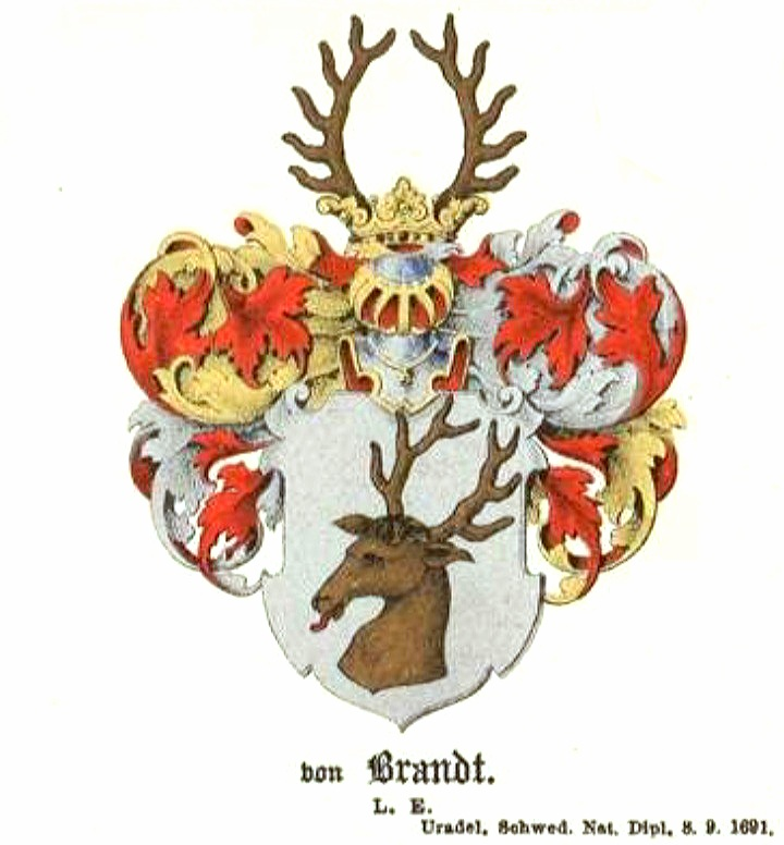 Coat of arms of Brandt family.